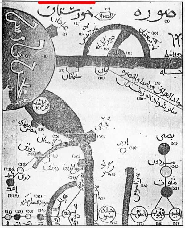 9th century map showing Khuzestan. Map was extracted by Zereshk, from copy of "Al-aqaleem" by Istakhri, re-print of 1839, located at Iran National Museum's Library.